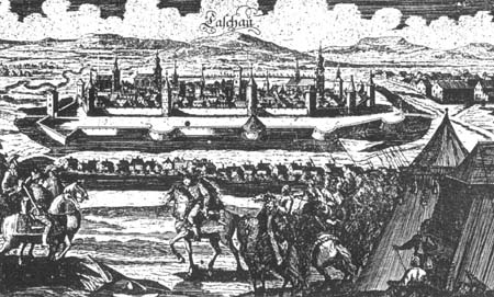 Capitulation of Thokolys Košice in 1685